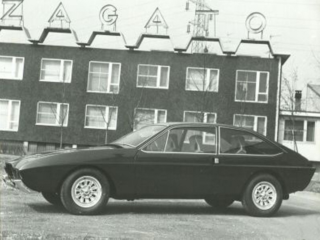 Volvo 3000 GTZ concept car by Zagato at the Zagato headquarters in Via Arese, Milano, 1970.